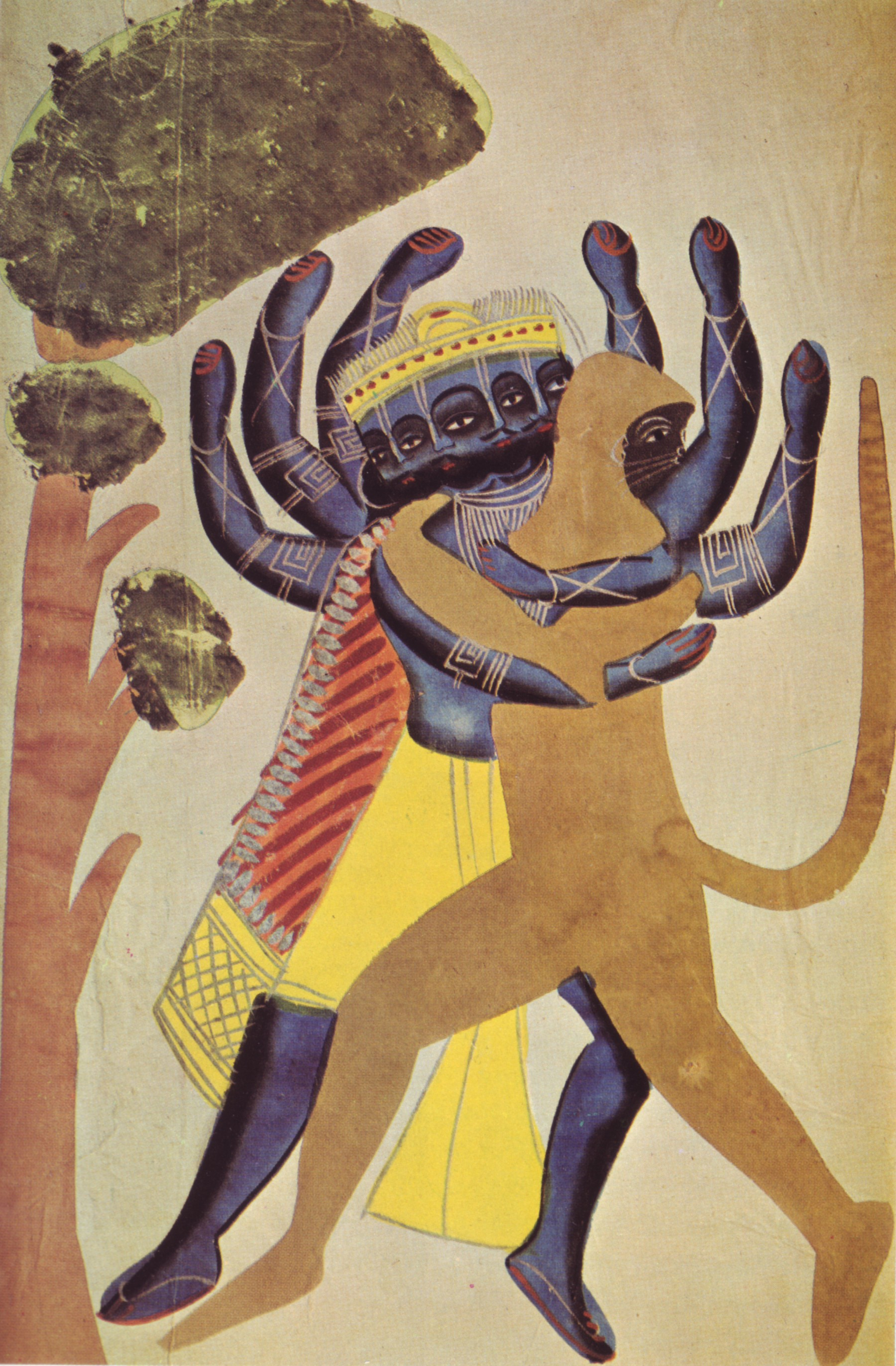 Image Dive 3 at A Journey Round My Skull